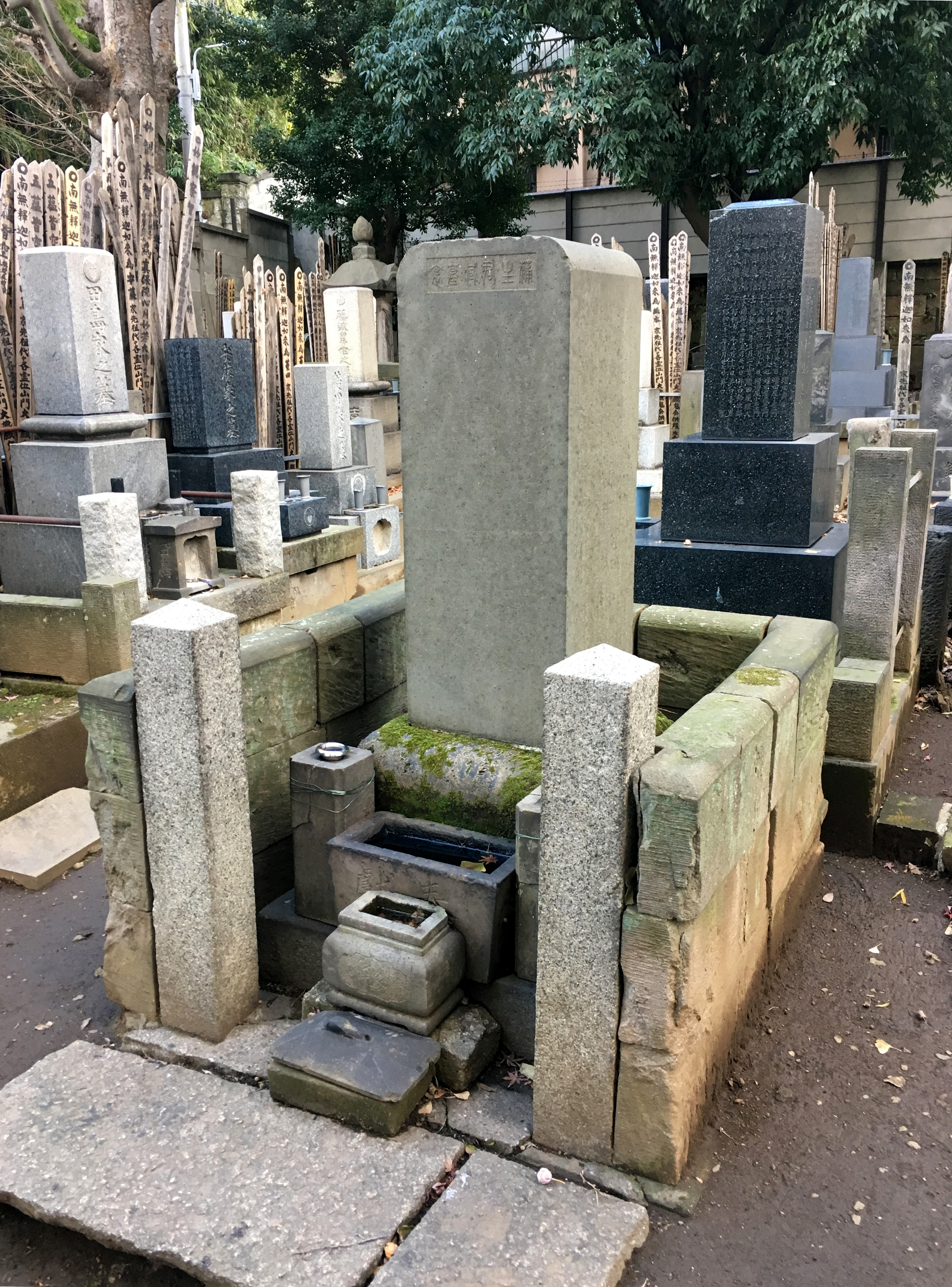 The tomb of Gamō Kunpei (Japenese Confucian scholar in 18-19th century)